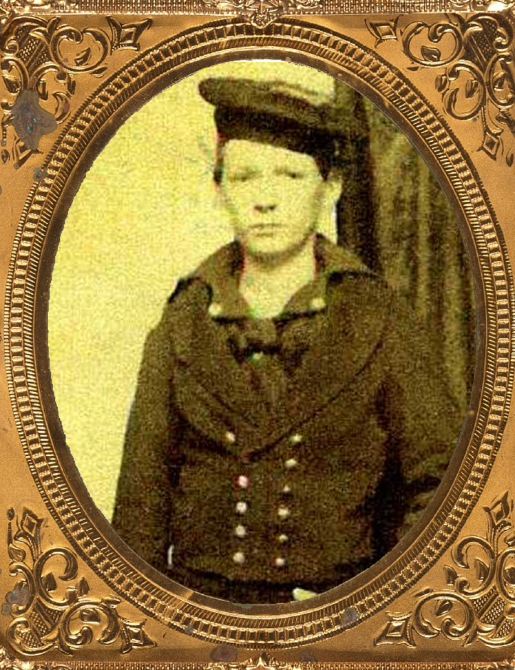 George Yost was only 14 when he served aboard the U.S.S. Cairo, yet he had the foresight to keep a journal of daily activities of the Union Gunboat. The Cairo’s papers were lost when she struck a ‘torpedo’ and sank in 1862, but Yost’s journal survived to help others understand life aboard the ship.